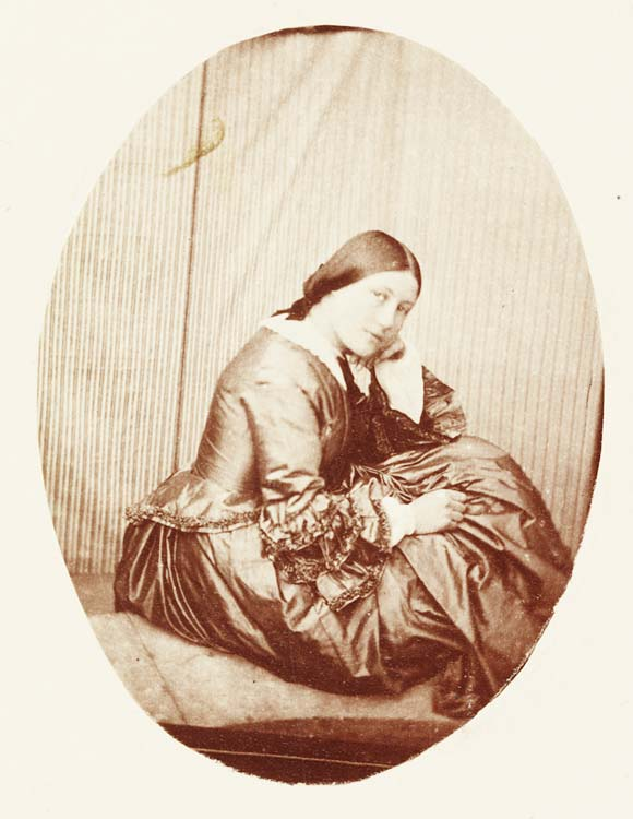 Ffotograffydd/Photographer: John Dillwyn Llewelyn (1810-1882) Nodyn/Note: This is the right hand side of a negative taken on Thereza’s stereo camera. The left hand image has a different pose. Single lens stereo camera by Murray & Heath, 46 Piccadilly, London is held in the National Museums and Galleries of Wales archive. Dyddiad/Date: 185- Cyfrwng/Medium: Print taken from a collodion negative. Cyfeiriad/Reference: dil00071 Rhif cofnod / Record no.: 3432435 3432435 Rhagor o wybodaeth am Ffotograffiaeth Gynnar Abertawe yn Llyfrgell Genedlaethol Cymru More information about Early Swansea Photography at the National Library of Wales